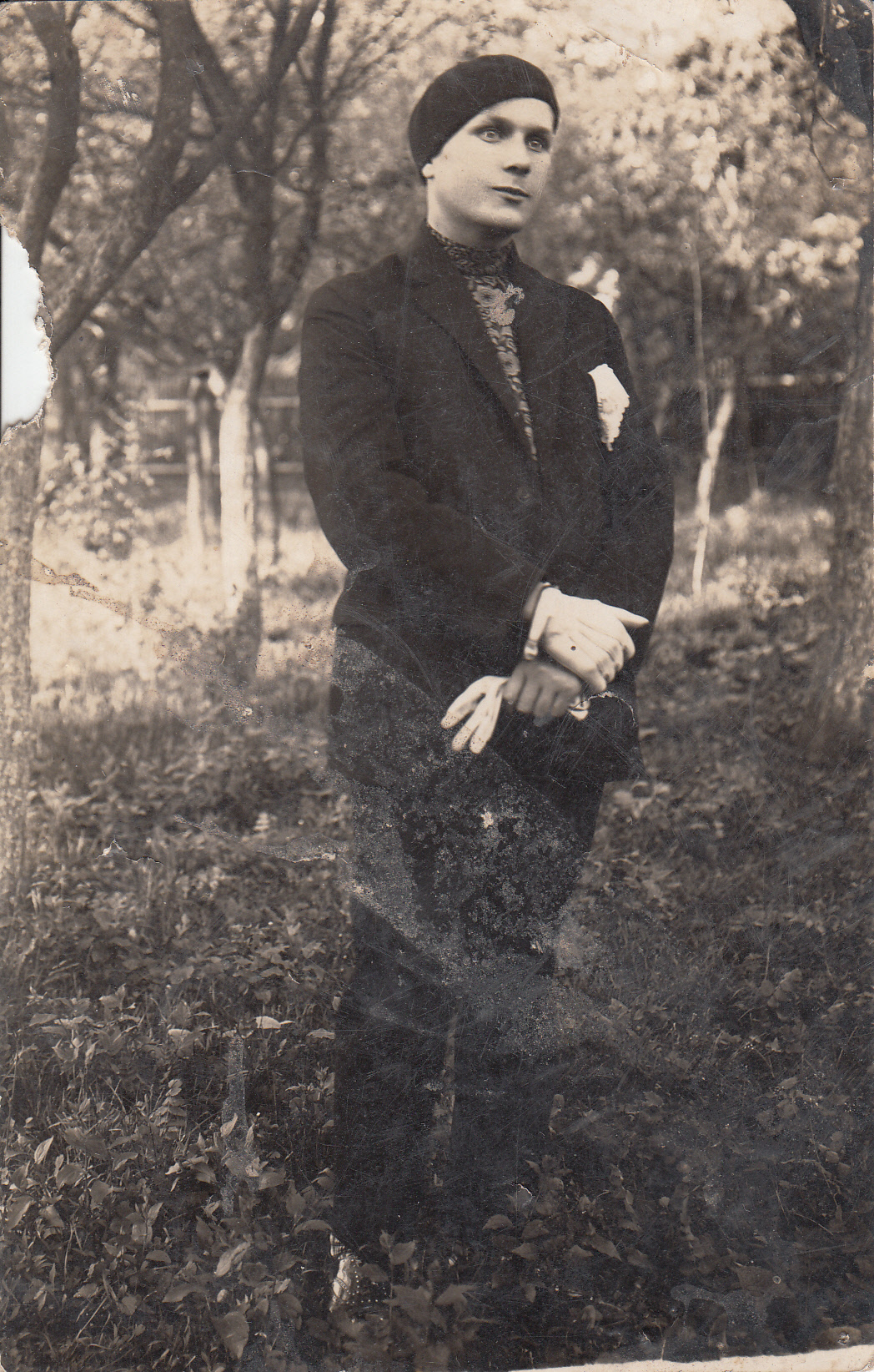 A photograph of Pavel Cesnak, teacher from Kulpin and director of Gymnasium in Bački Petrovac (1930s). Inventory number 2789. Srpski (latinica): Fotografija Pavela Cesnaka, učitelja iz Kulpina i direktora Gimnazije u Bačkom Petrovcu (tridesete godine 20. veka). Inventarski broj 2789.